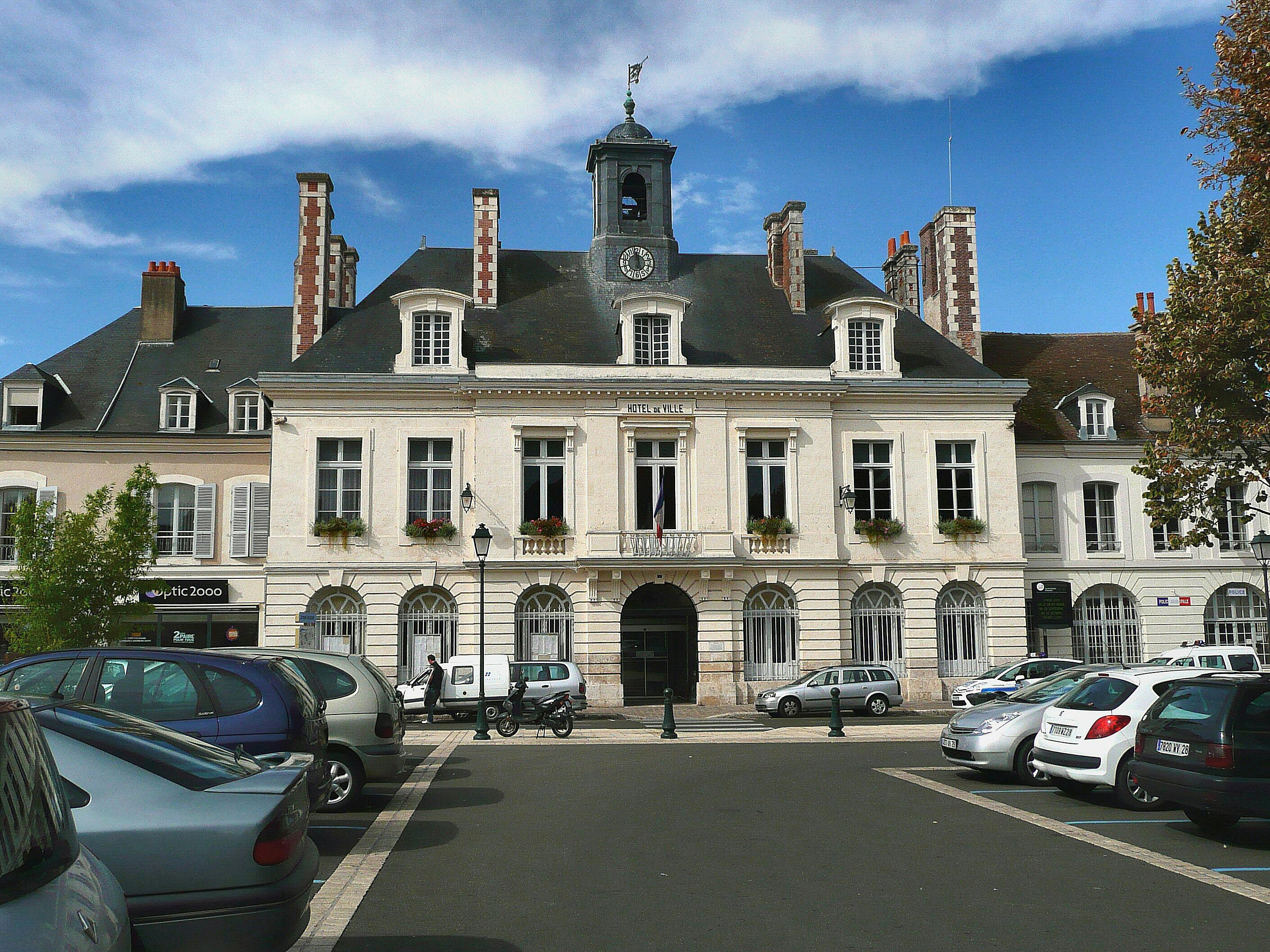 Town hall of Châteaudun